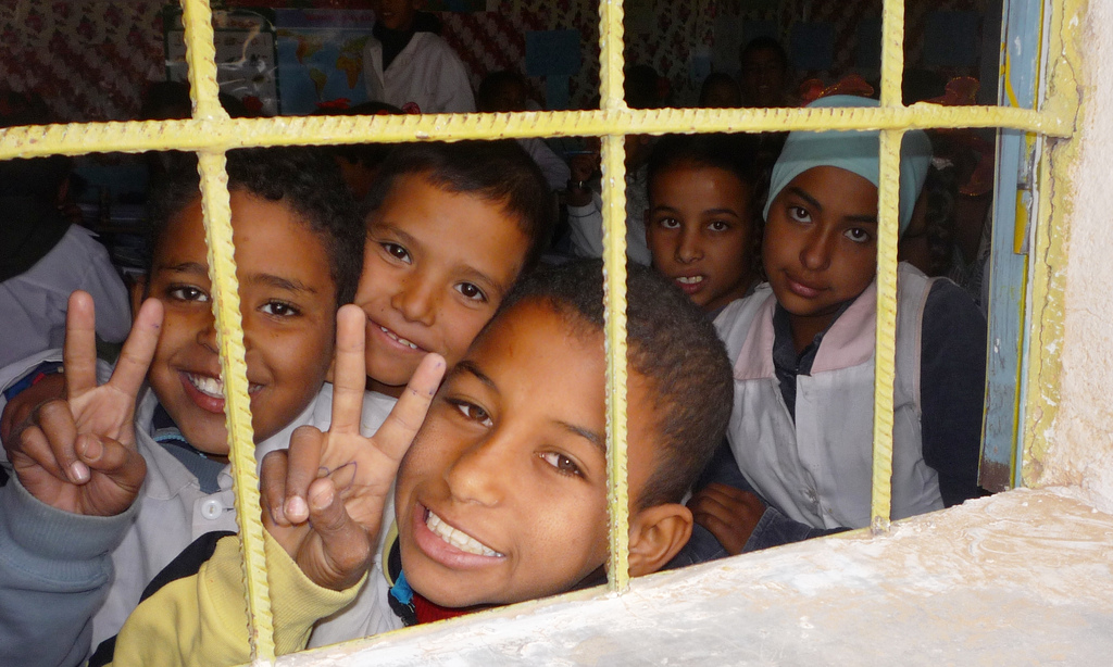 But despite the smiles there are thousands of children and youngsters growing up in the Algerian desert. The perspective of being stuck in the desert has little appeal and they grow increasingly impatient with their elders' long negotiations on a settlement with Morocco. photos: EC/ECHO/Heinke Veit